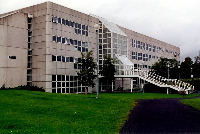 UCD Engineering & Material Science Centre